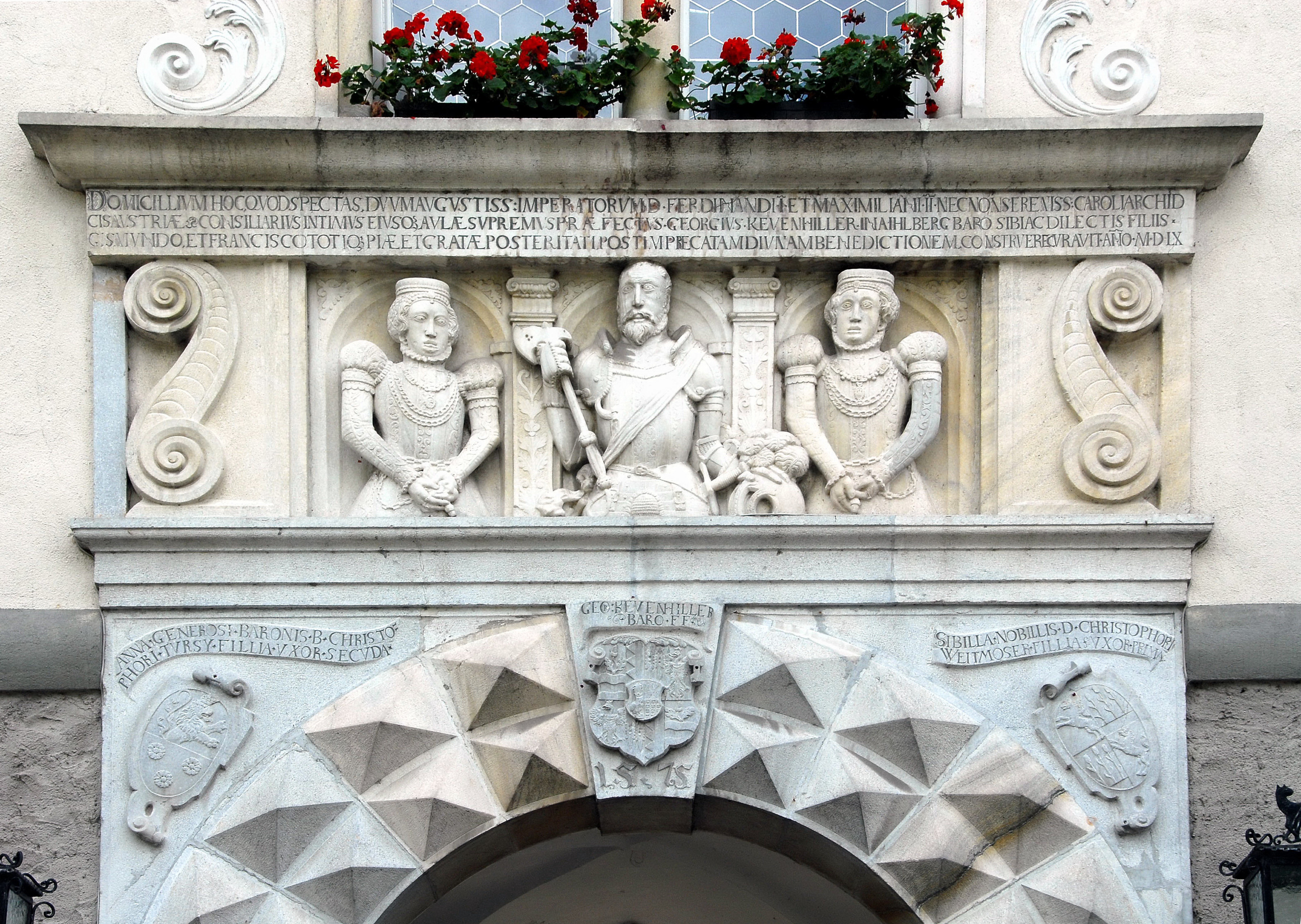 Relief of the castle-builder Georg Khevenhüller and his two wives (dated 1575) above the northern portal to the castle of Wernberg, Klosterweg #2, district Villach Land, Carinthia, Austria, EU